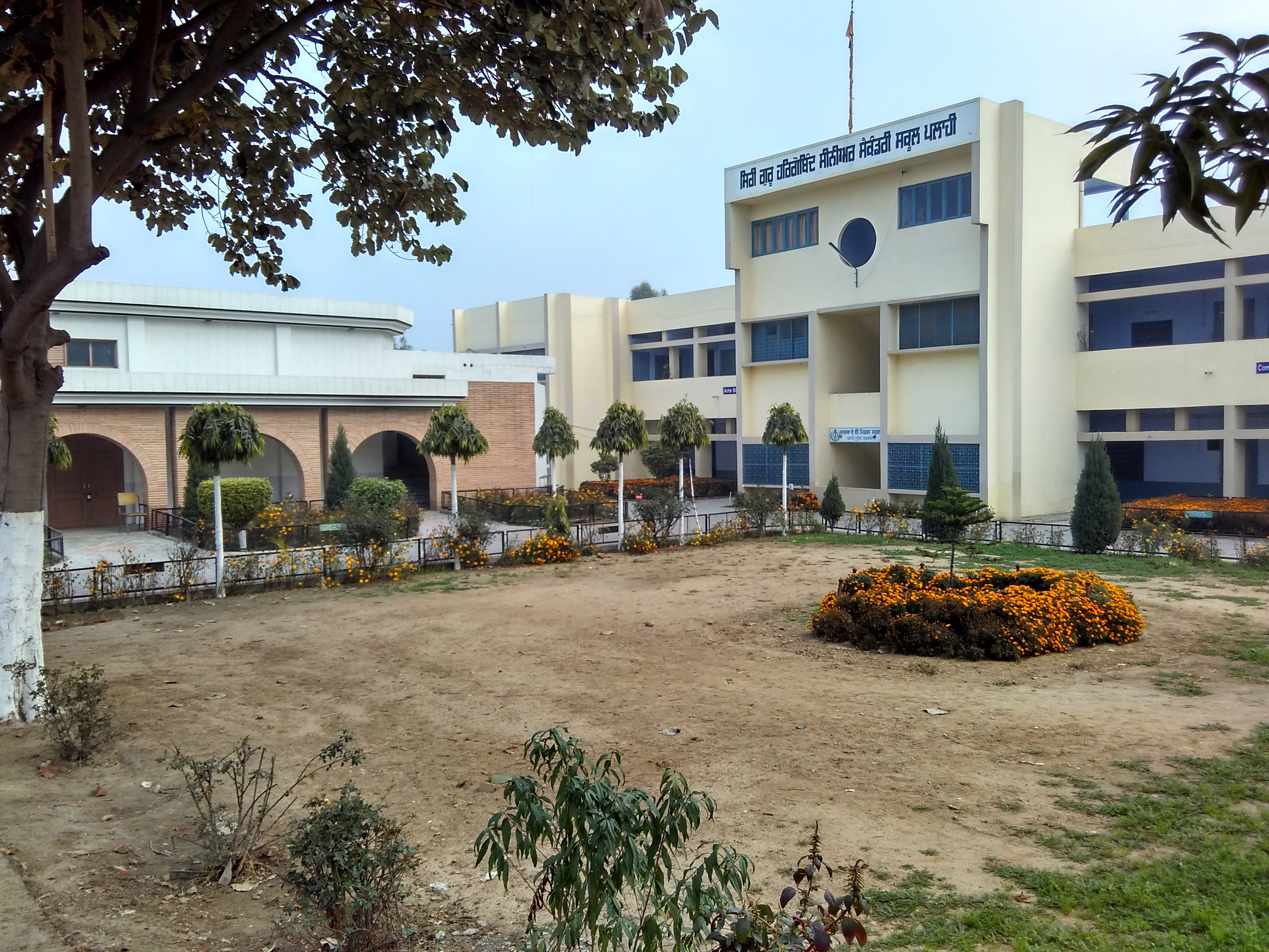 Shri Guru Hargobind Khalsa Sr. Sec.School (Plahi Sahib)